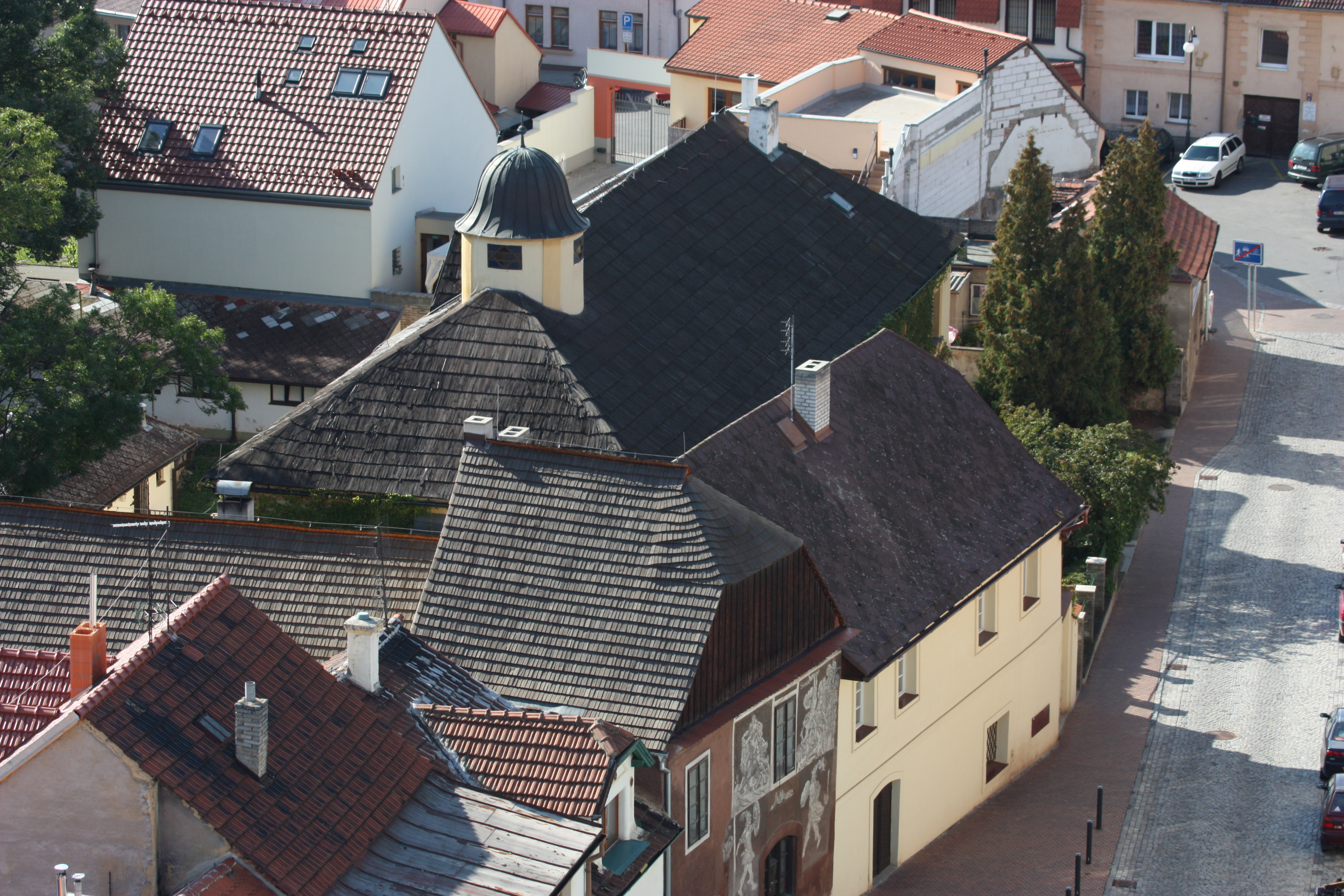 View form Vysoká brána - Gate (tower) in Rakovník.